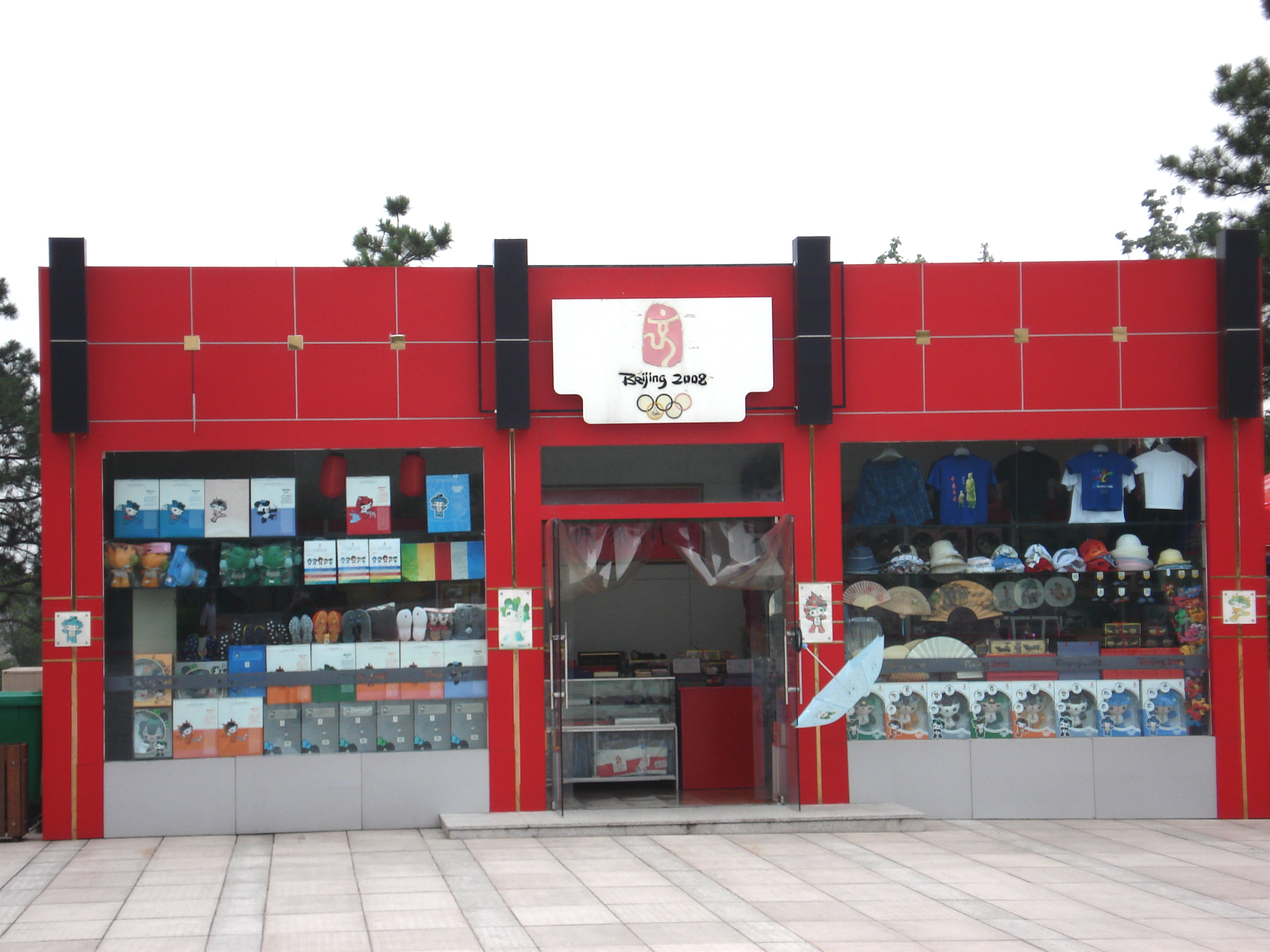 A store for the 2008 Summer Olympics, to be held in Beijing. This is right outside the Terracotta Army museum in Xi'an, China